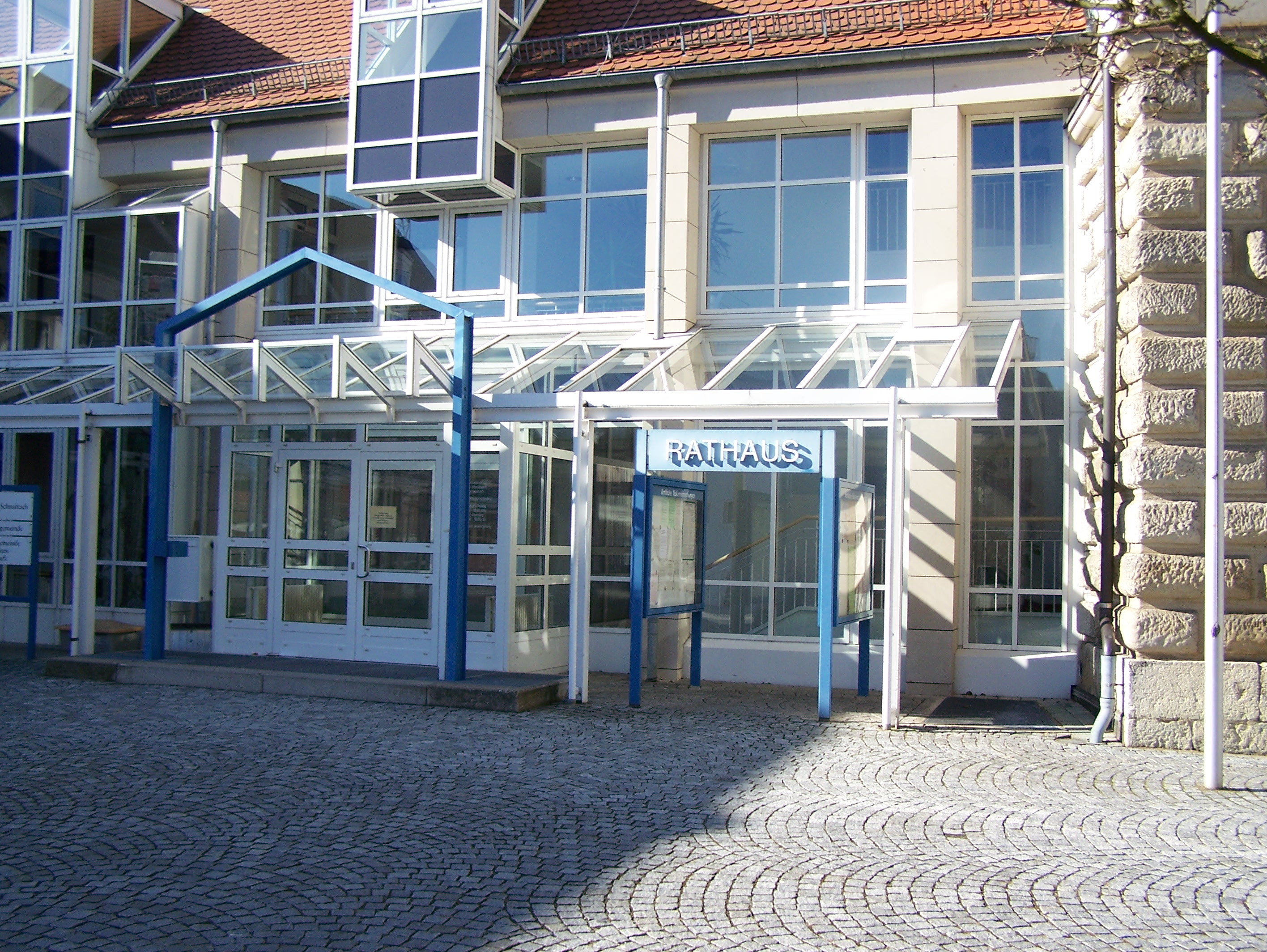 Town Hall in Schnaittach, Germany.